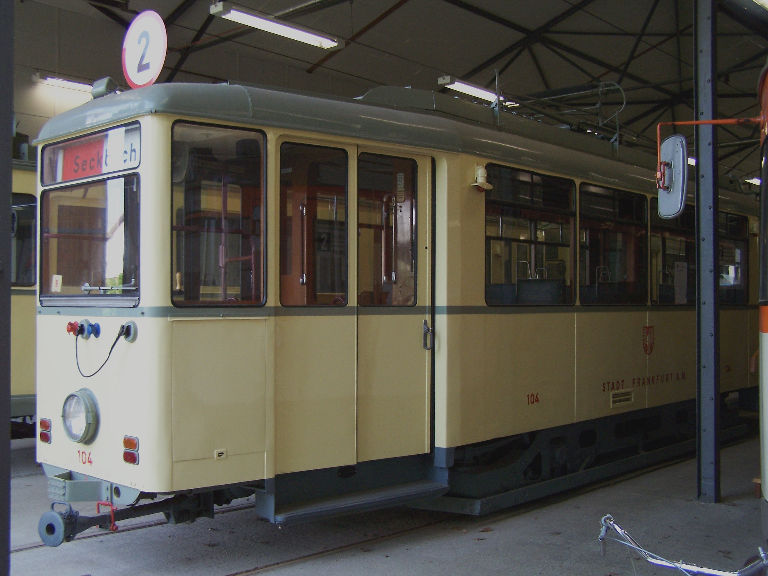 tram type K No 104 in the Frankfurt on Main Transport Museum in Frankfurt am Main--Schwanheim